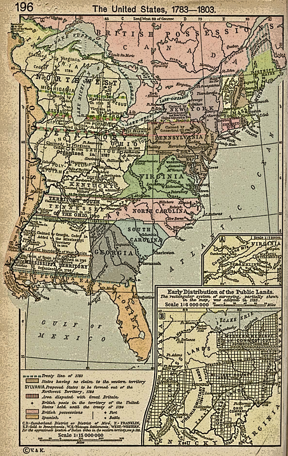 Map showing territorial changes in the United States from 1783 to 1803.